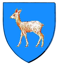 Coat of arms of Dâmbovița County, Romania.